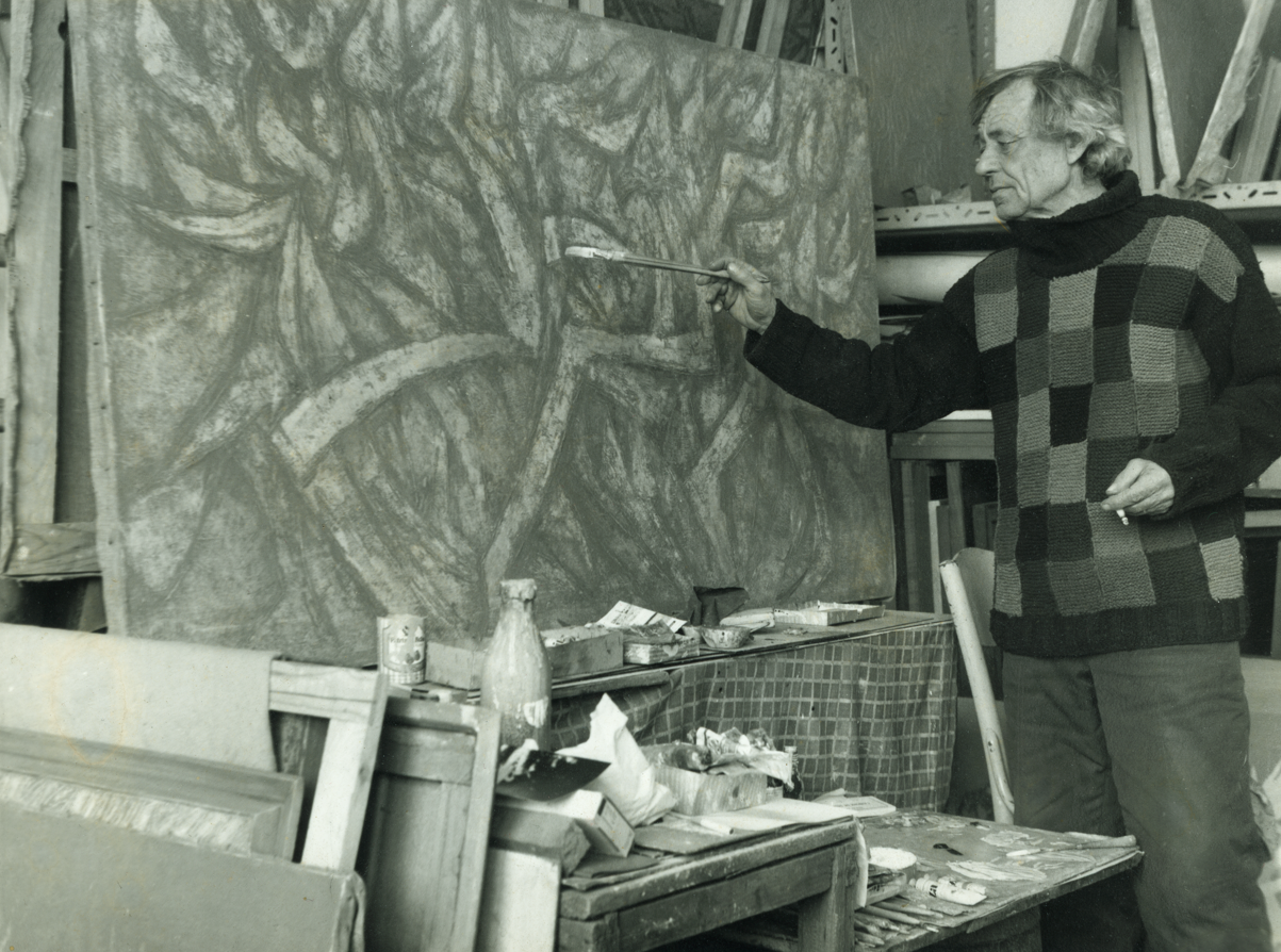 painter Leon Vreme in his studio